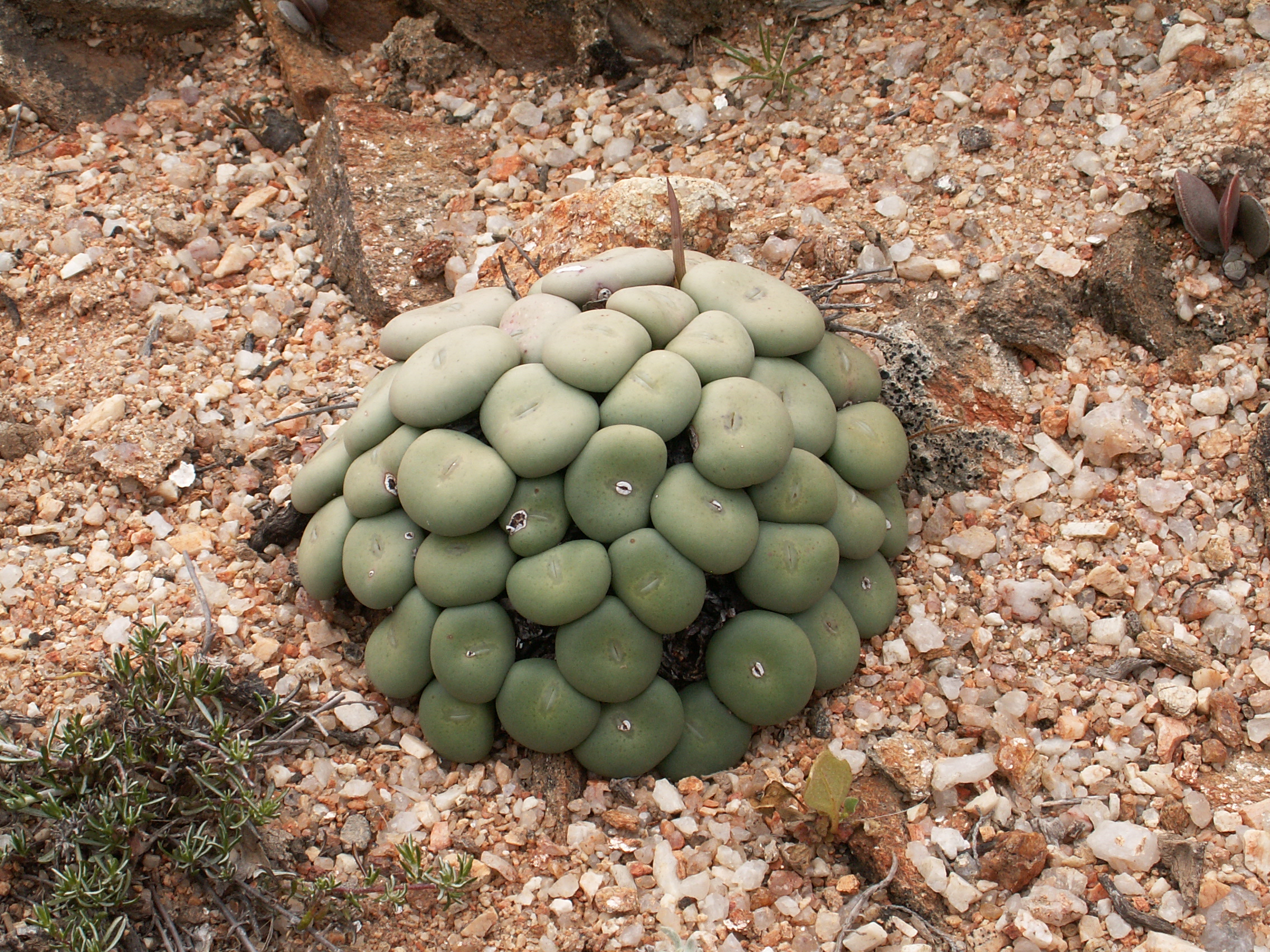 (Conophytum wettsteinii (L.f.) Tölken); Aizoaceae; Richtersveld National park, Northern Cape, South Africa